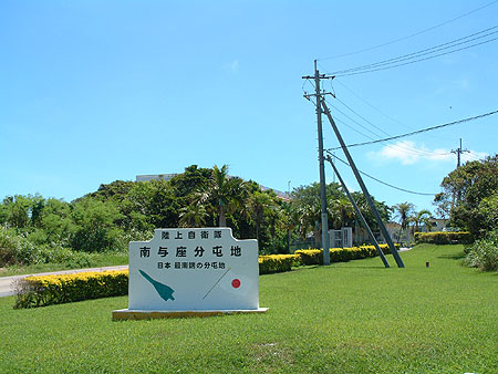 JGSDF Vice-Camp Minami-Yoza